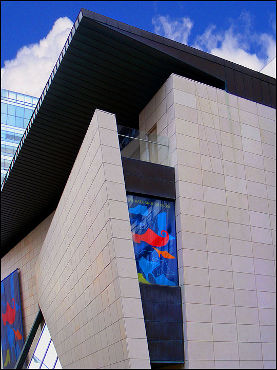 The BATA Shoe Museum, Toronto, Ontario, Canada-[foto by paul b. toman]